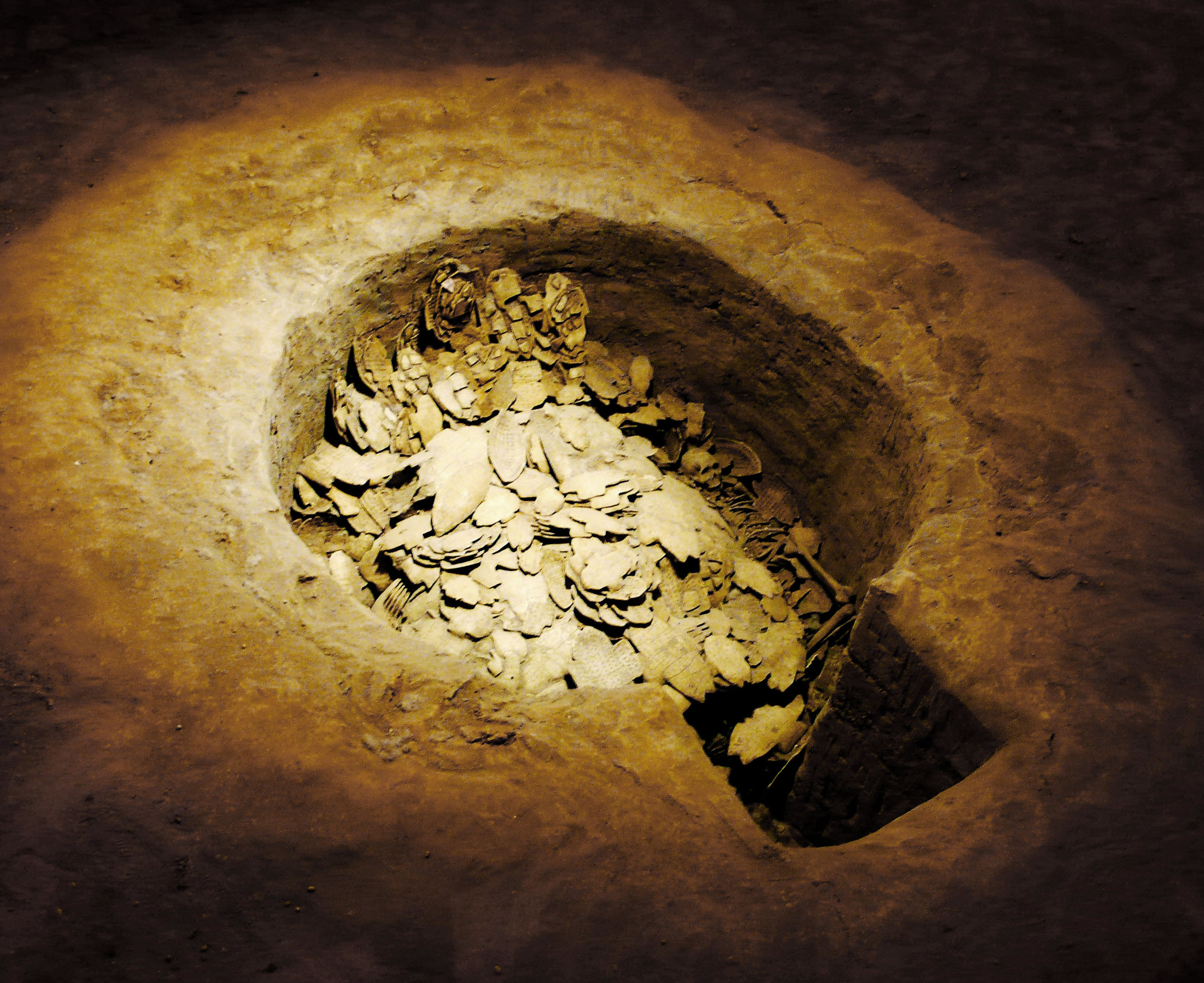 Pit YH127 of oracle bones (甲骨) at Yinxu, Anyang, China. The oracle bones are pieces of bone or turtle plastron bearing the answers to divination during the late Shang dynasty (1250–1050 BC). They were heated and cracked, then typically inscribed using a bronze pin in what is known as the Oracle Bone Script (甲骨文), the earliest known corpus of ancient Chinese writing. The bones contain important historical information such as the complete royal genealogy of the Shang Dynasty. Yinxu is the ruins of the last capital of Shang Dynasty. The capital served 255 years for 12 kings in 8 generations.